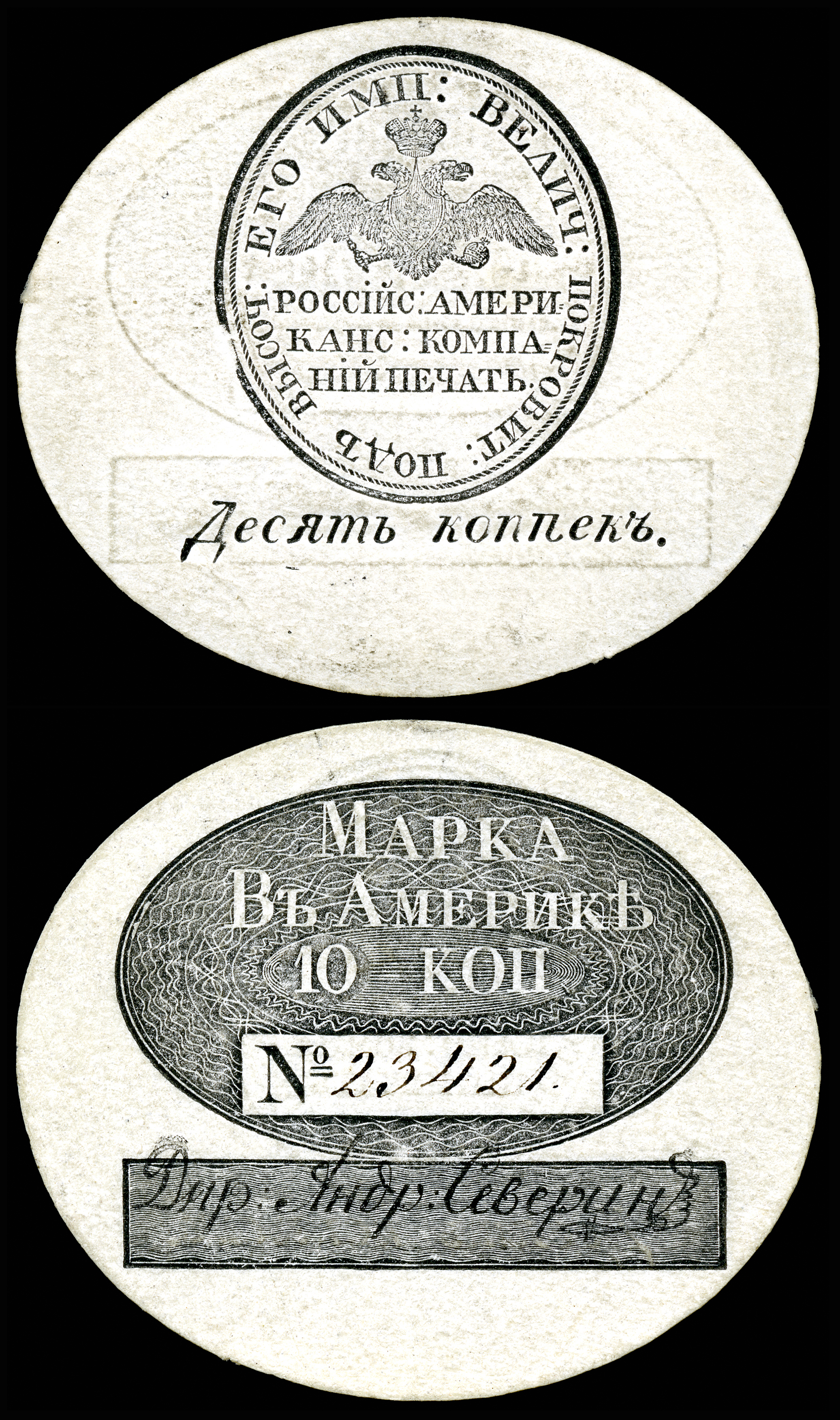 10 Kopec printed on vellum or parchment by the Russian-American Company. Used as a form of company scrip in Alaska when it was a possession of the Russian Empire. The obverse reads - "Russian American Company under august protection of His Imperial Majesty."